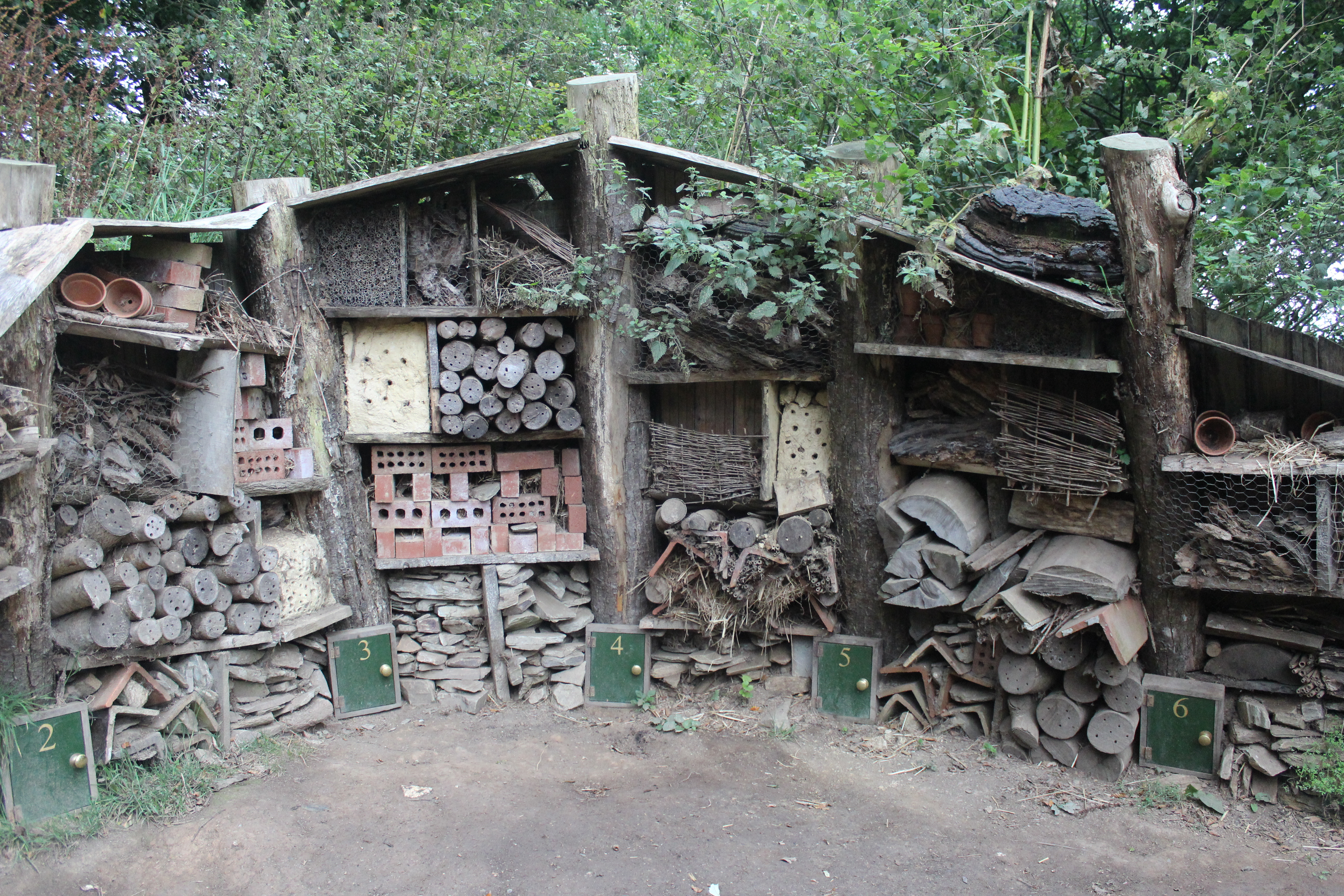 Insect hotel, Lost Gardens of Heligan, Cornwall. This insect hotel has a variety of materials - wood, stone, brick and straw. This allows many different types of insect to inhabit the structure. This particular insect hotel is a working device located in a sheltered spot at the bottom of the gardens.